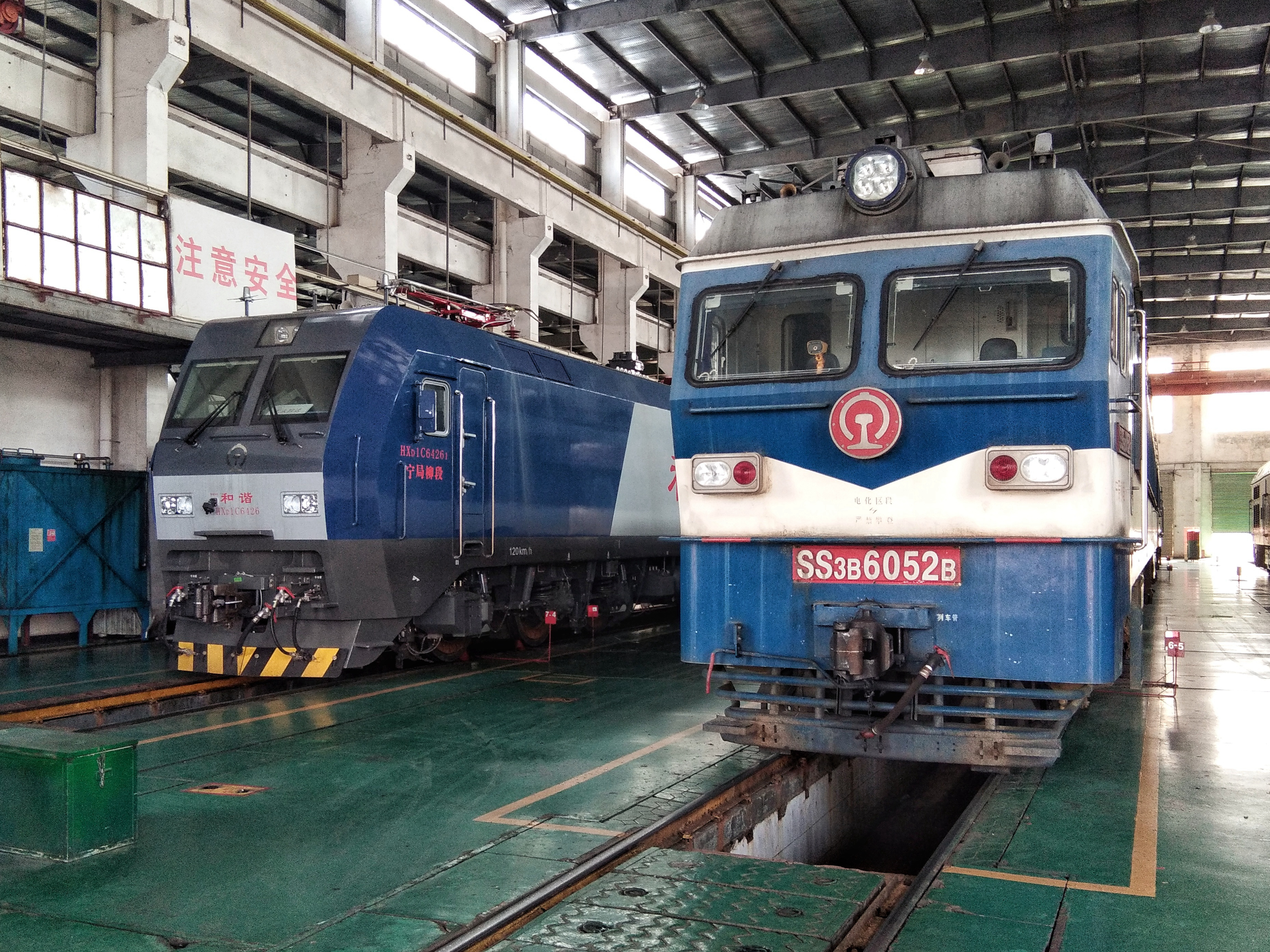 HXD1C 6426 & SS3B 6052 in Liuzhou Locomotive Depot.